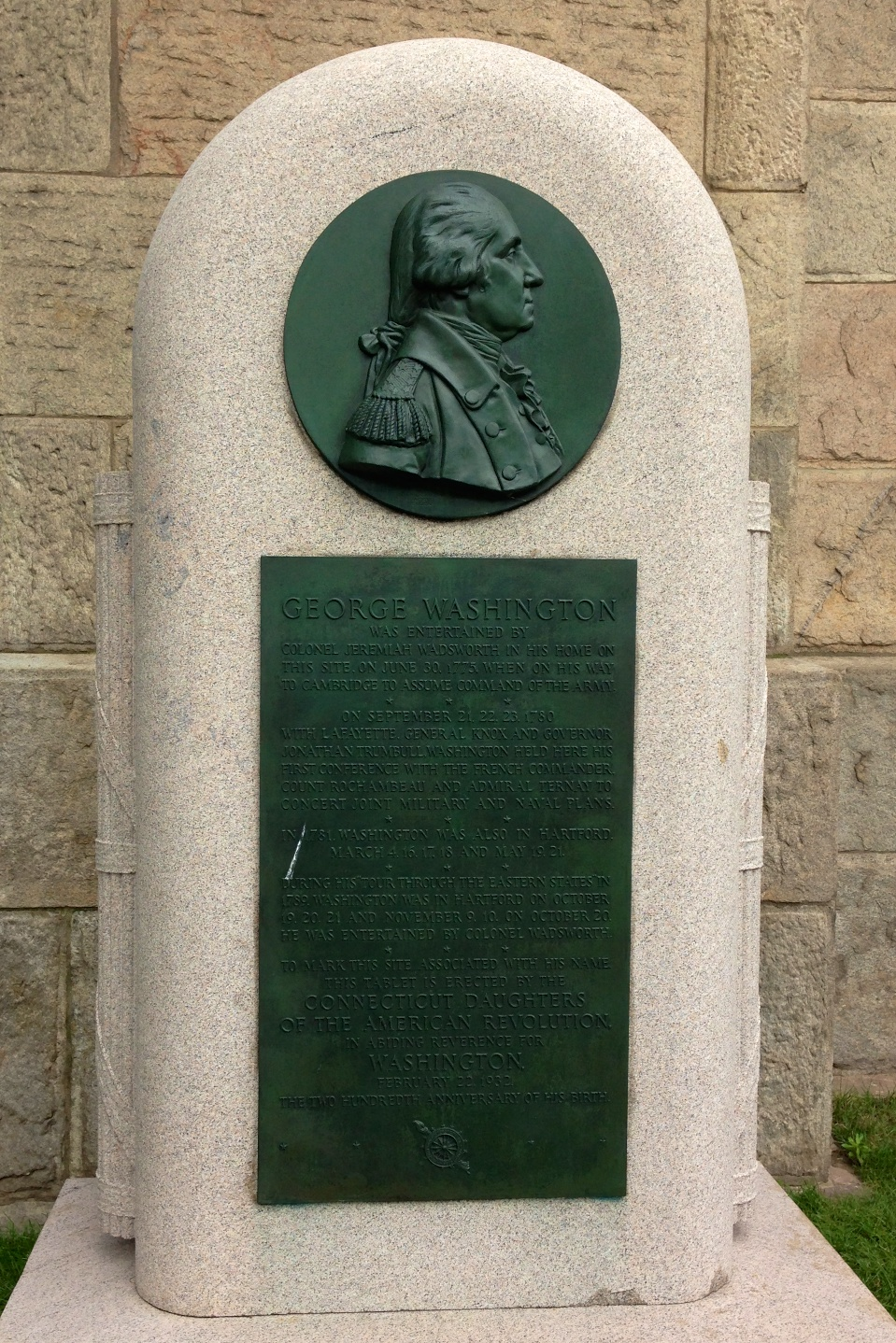 Plaque on granite outside of the Wadsworth Atheneum dedicated to George Washington and Jeremiah Wadsworth.